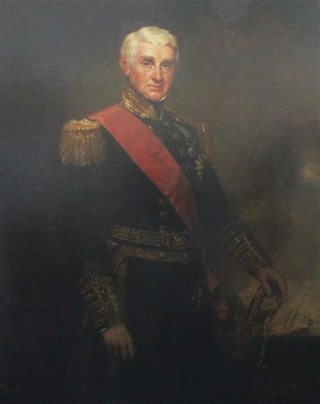 Portrait of Admiral Sir Thomas John Cochrane